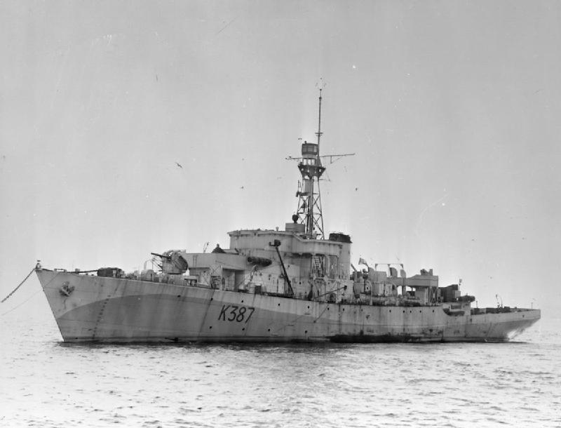 Photograph of British corvette HMS Berkeley Castle, on the River Clyde.